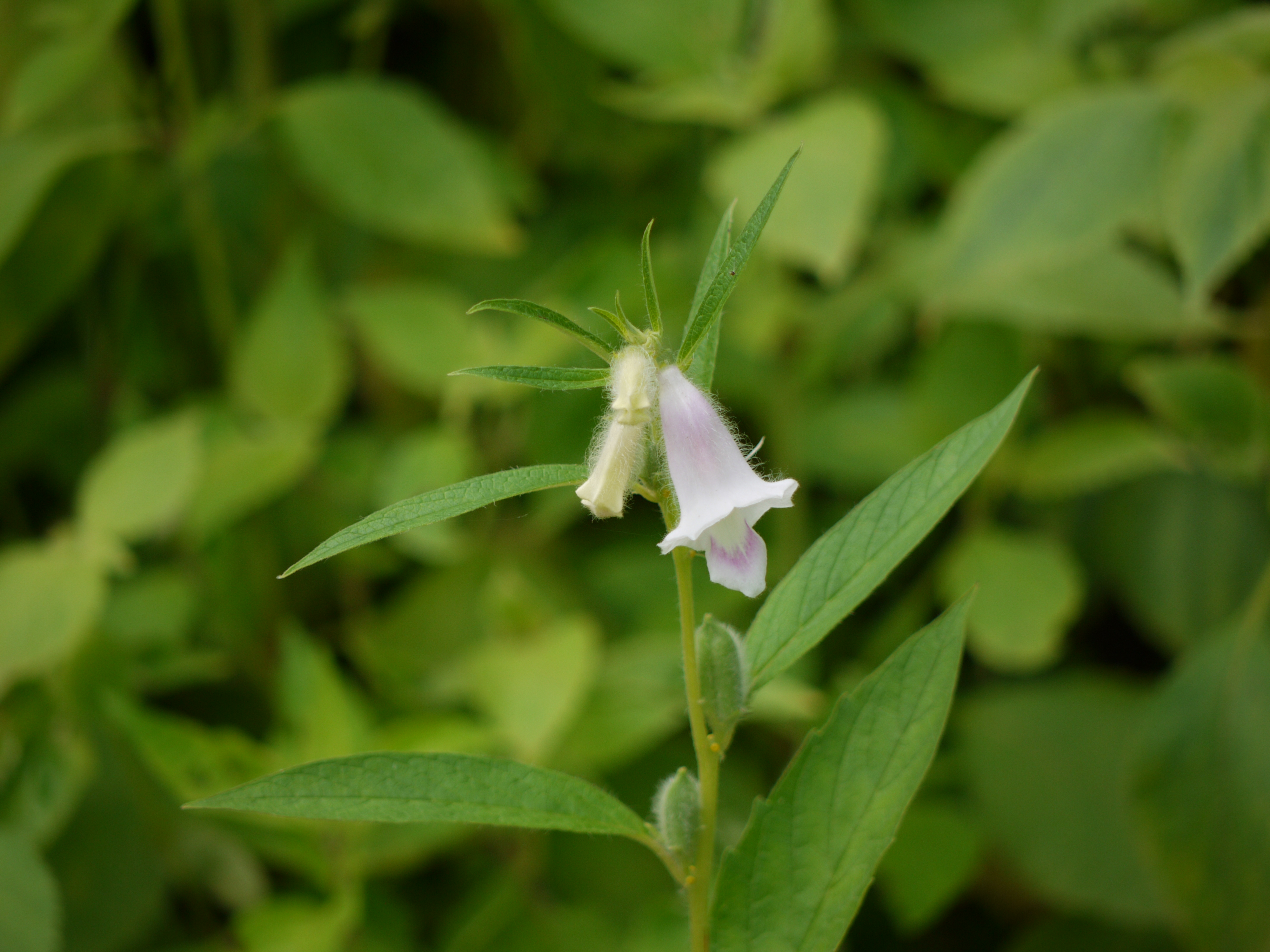 Pedaliaceae (pedalium, or sesame family) » Sesamum orientale see-SAM-um -- from Latin sesamum borrowed from other languages or-ee-en-TAY-lee -- of or from the Orient, eastern commonly known as: bene seeds, beniseed, benne, gingelly, til • Bengali: তিল til • Hindi: gingli, safed til, til • Kannada: yallu • Kashmiri: कुंजद् kunjad, कूंजल् or कूंज्यल् kunjal • Malayalam: ellu, schit-elu • Manipuri: thoiding • Marathi: तीळ or तिल tila • Punjabi: til • Sanskrit: तिल tila • Tamil: சிற்றெள் cirrel, எள் el, எள்ளு ellu, திலம் tilam, yellu cheddi • Telugu: నువ్వులు nuvvulu, నువ్వుపువ్ nuvvupuvvu, తెలిక telika, తిలలు tilalu Native to: sub-saharan Africa, India References: Flowers of India • M.M.P.N.D. • Wikipedia